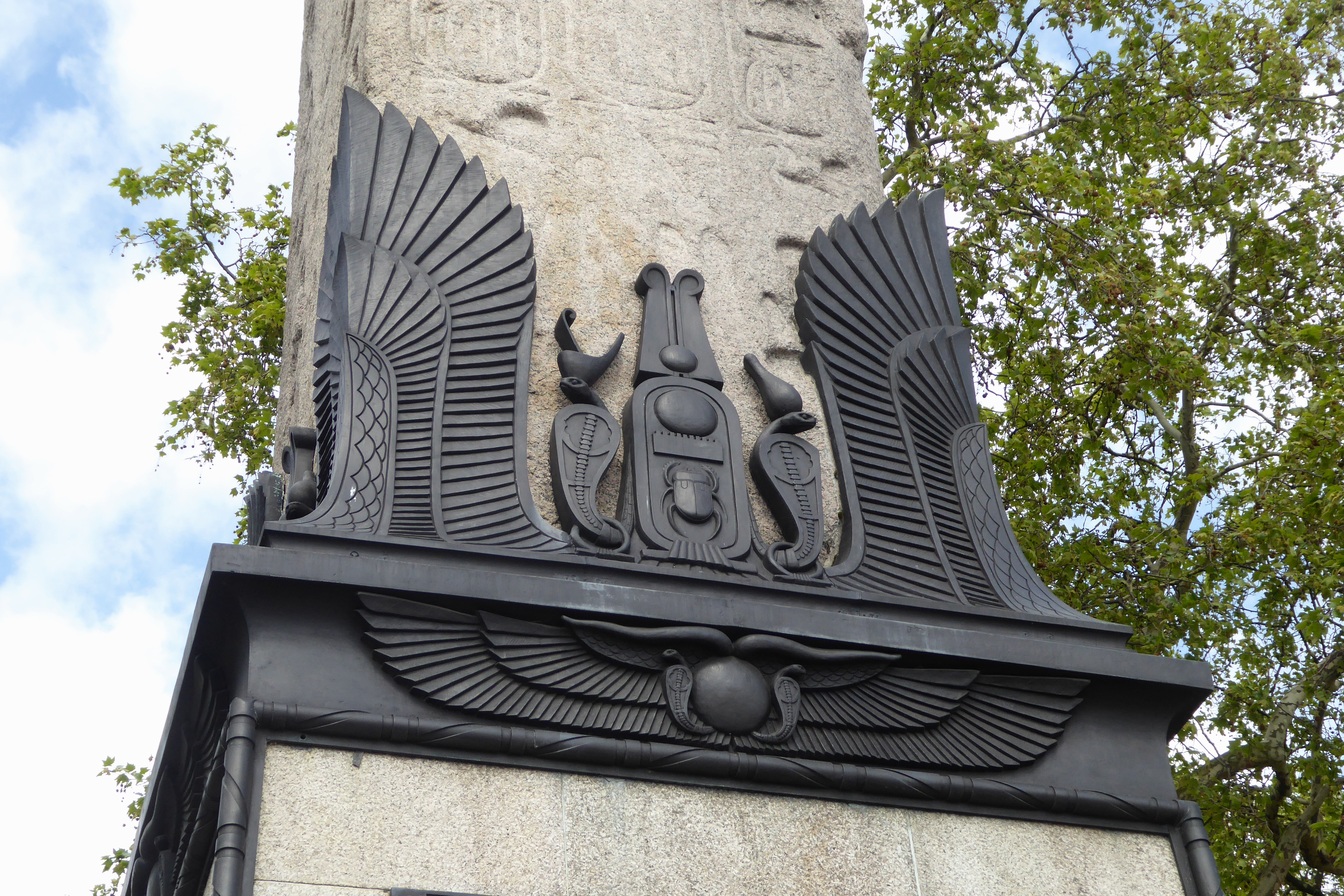 Egyptological metalwork detail on Cleopatra's Needle in London